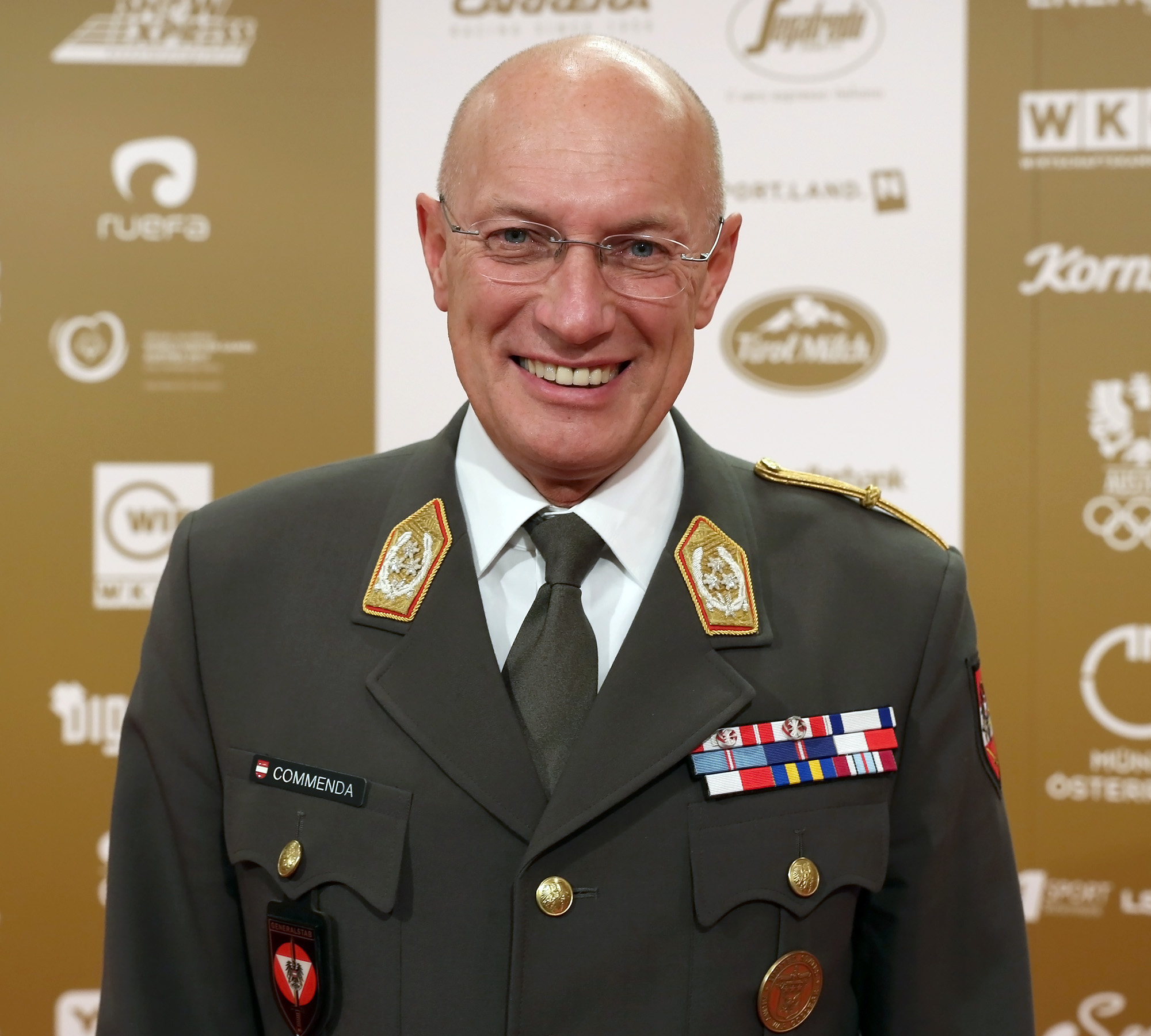 Othmar Commenda at the award show for the Austrian Sportspersonalities of the Year 2013 at Austria Center Vienna (Vienna, Austria).